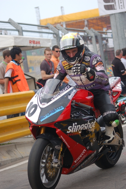 Ian Lougher on the Slingshot Racing Honda Fireblade at the 40th Macau Motorcycle Grand Prix in 2006